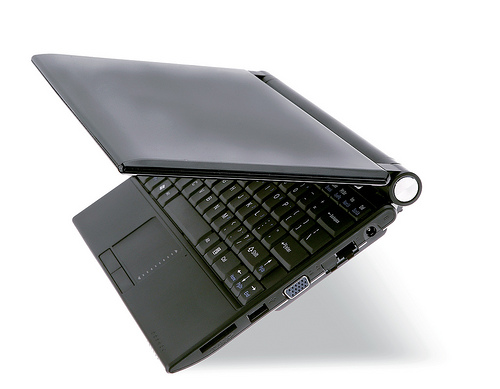 A photo of Olive Zipbook